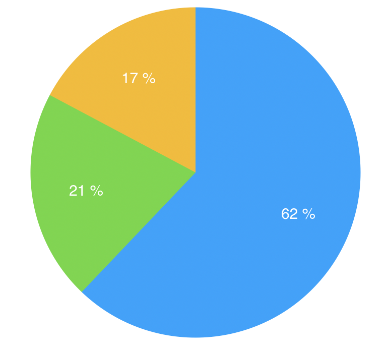 Gross energy consumption per source in Iceland 2019. Blue:Geothermal green:hydropower yellow:oil.